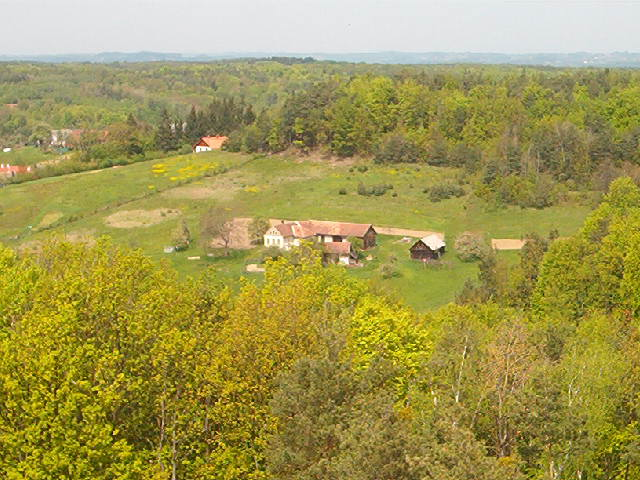 Permise, city part of Kétvölgy